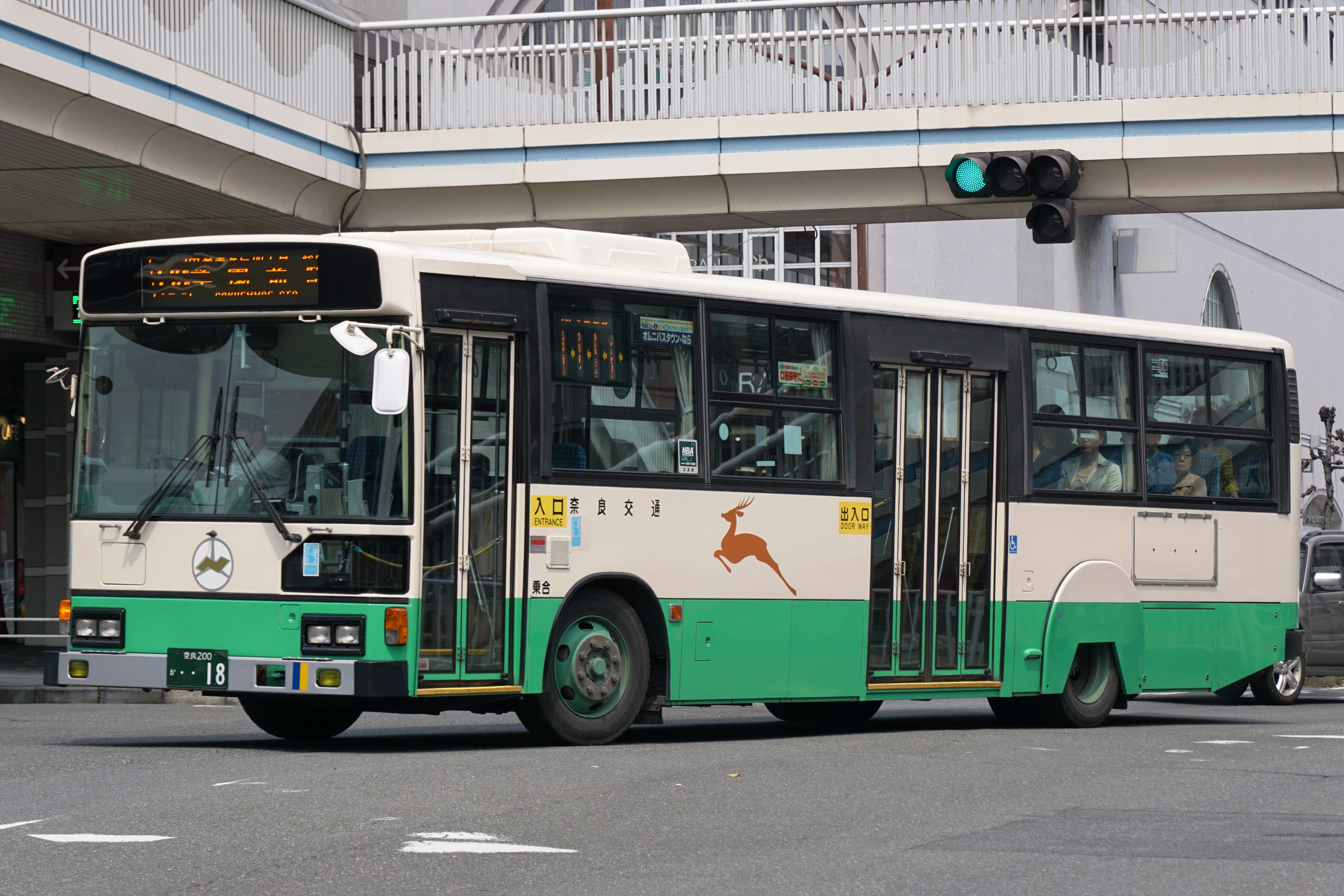 Blue Ribbon that made of Hino Motors has been introduced into the Nara Kotsu (KC-HU2MPCAkai). Photo Taken at Gakuemmae Station.